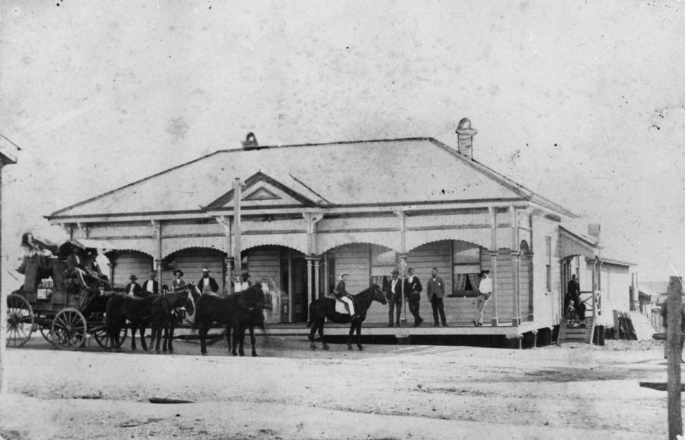 Charters Towers Post Office, Queensland, ca. 1880. Post office in the 1870s showing Cobb & Co's coach. This is the site of the Town Hall in Charters Towers today (2007) (Description supplied with photograph.).